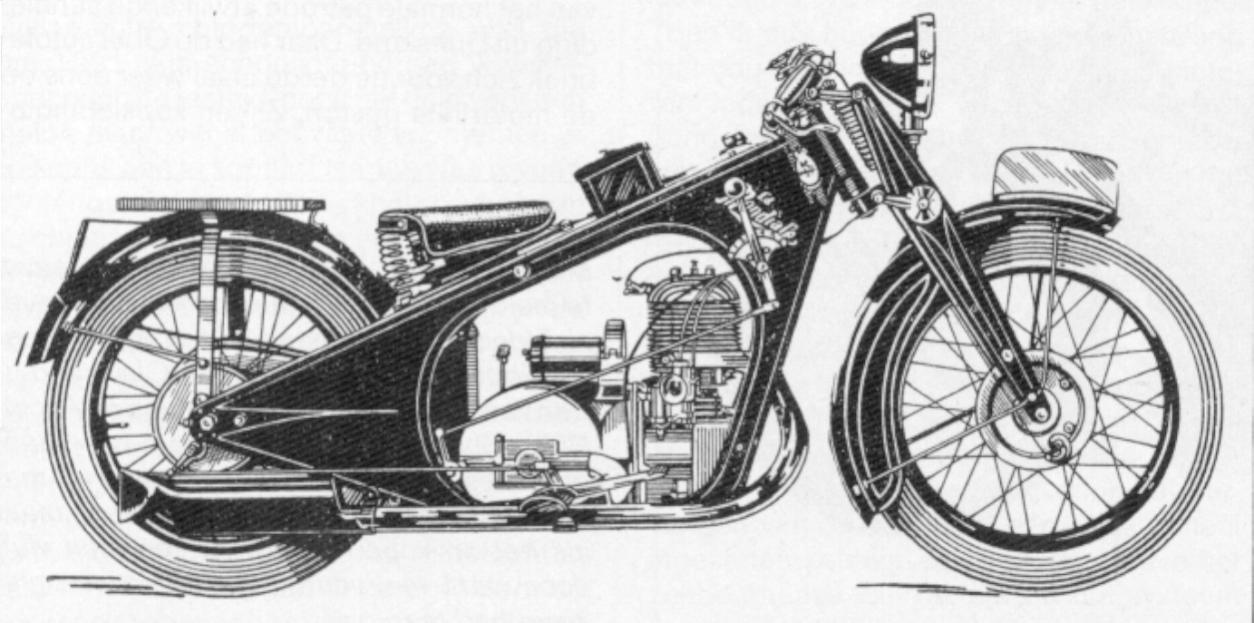 Advertising drawing of a La Mondiale 350 cc motorcycle.